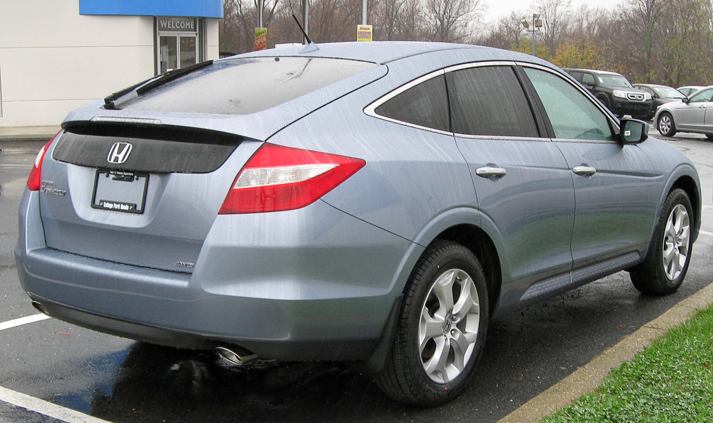 2010 Honda Accord Crosstour photographed in College Park, Maryland, USA.